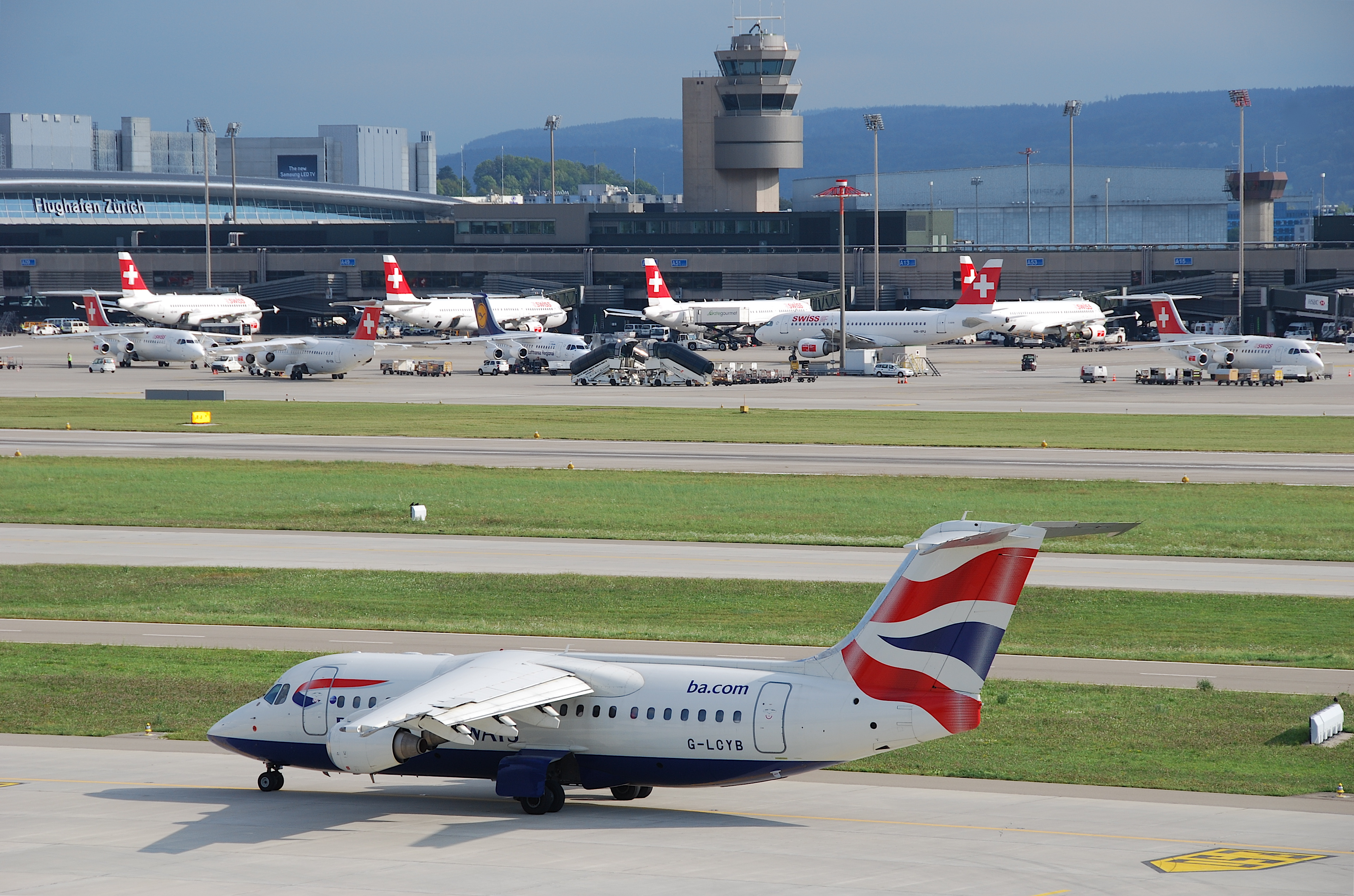 British Airways Avro RJ 85; G-LCYB@ZRH;28.08.2009/552cy